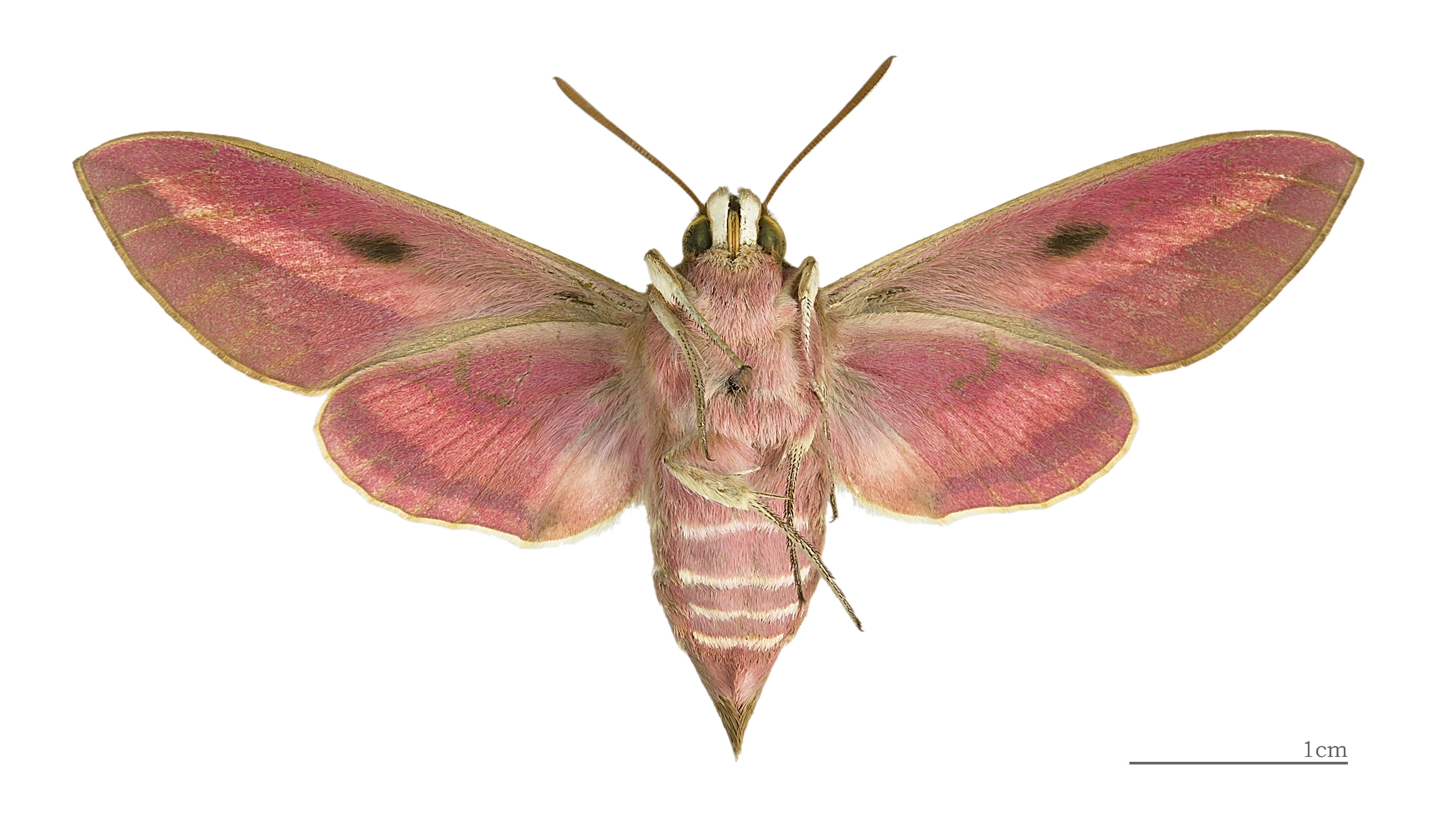 Spurge Hawk-moth - △ Ventral side